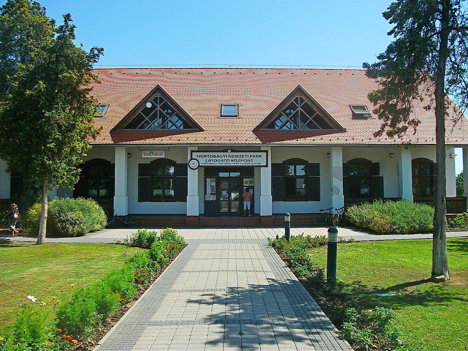 Hortobágyi Nemzeti Park Látogatóközpont, Hortobágy, Hungary